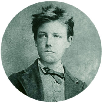 Arthur Rimbaud, poet